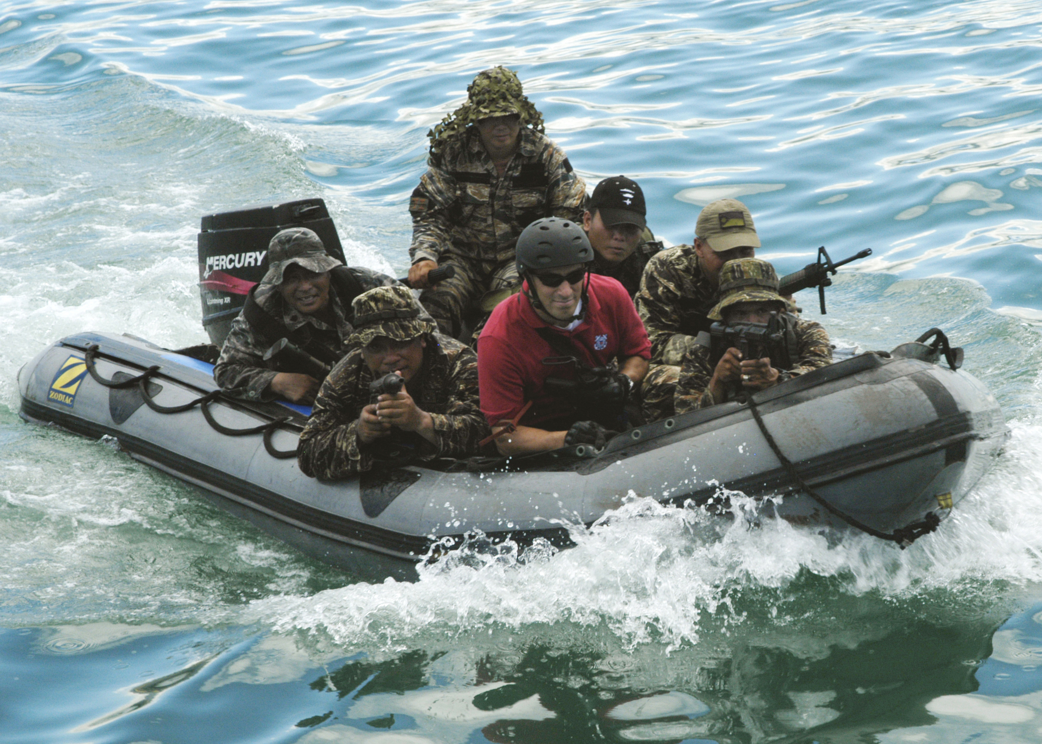 U.S. Coast Guard Petty Officer 2nd Class Justin Laragione, center, and Philippine navy special operations group Sailors conduct simulated interdiction operations May 22, 2009, during Cooperation Afloat Readiness and Training (CARAT) in Cebu City, Philippines. CARAT is a series of bilateral exercises held annually in Southeast Asia to strengthen relationships and enhance the operational readiness of participating forces.